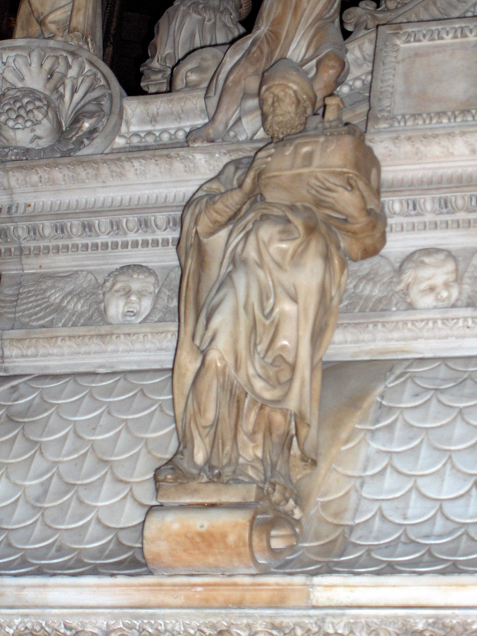 San Petronio (by Michelangelo); Ark of Saint Dominic (1494), Basilica of Saint Dominic, Bologna, Italy